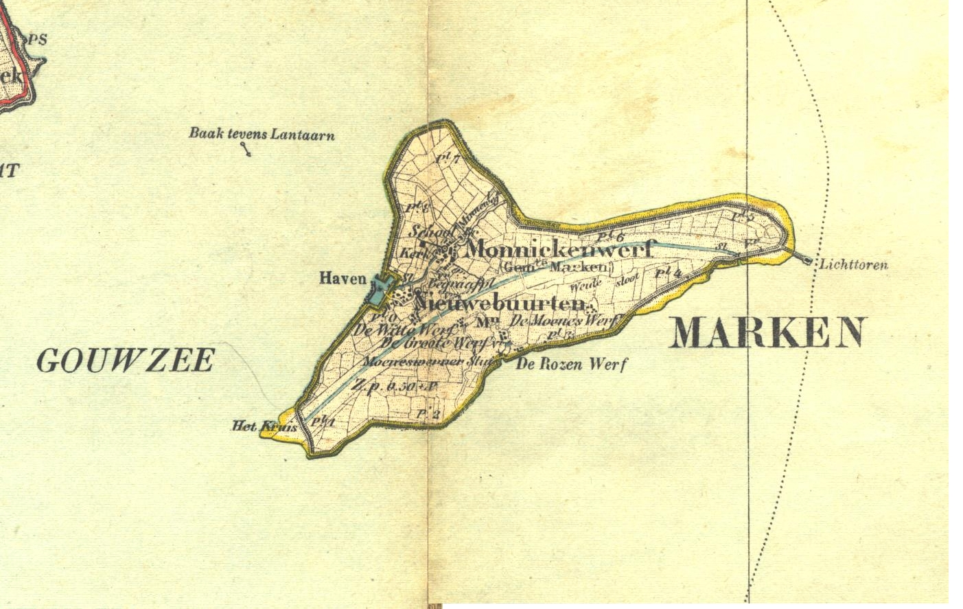 Marken Island, Markermeer, Netherlands